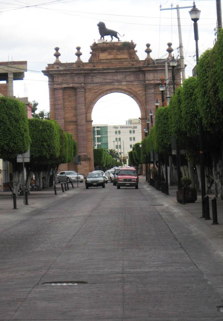 The gate leading into the historic city center on Calzada de los Heroes in Leon Guanajuato Mexico